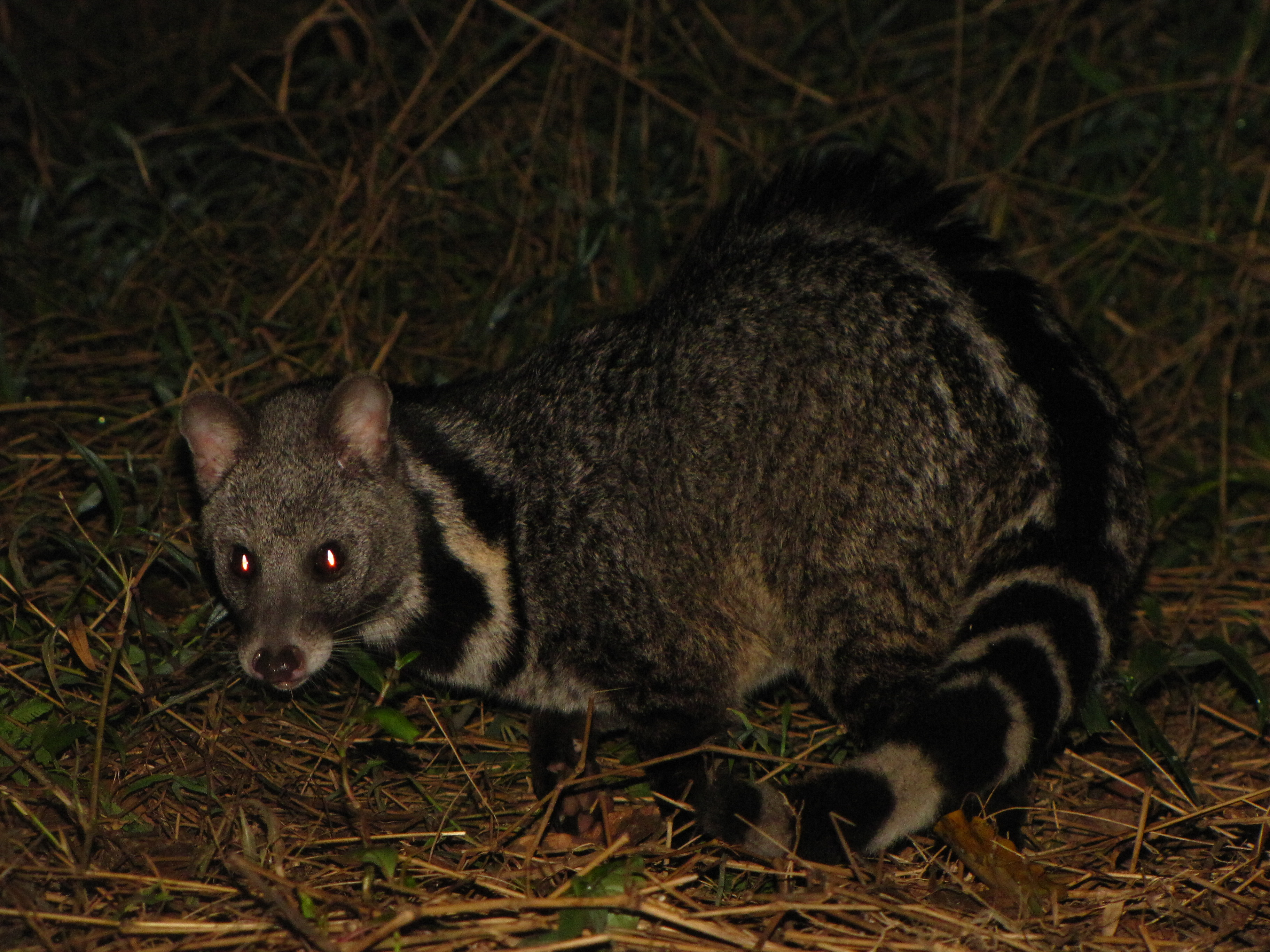 Large Indian civet (Viverra zibetha) from Namdapha Tiger Reserve, Arunachal Pradesh, India